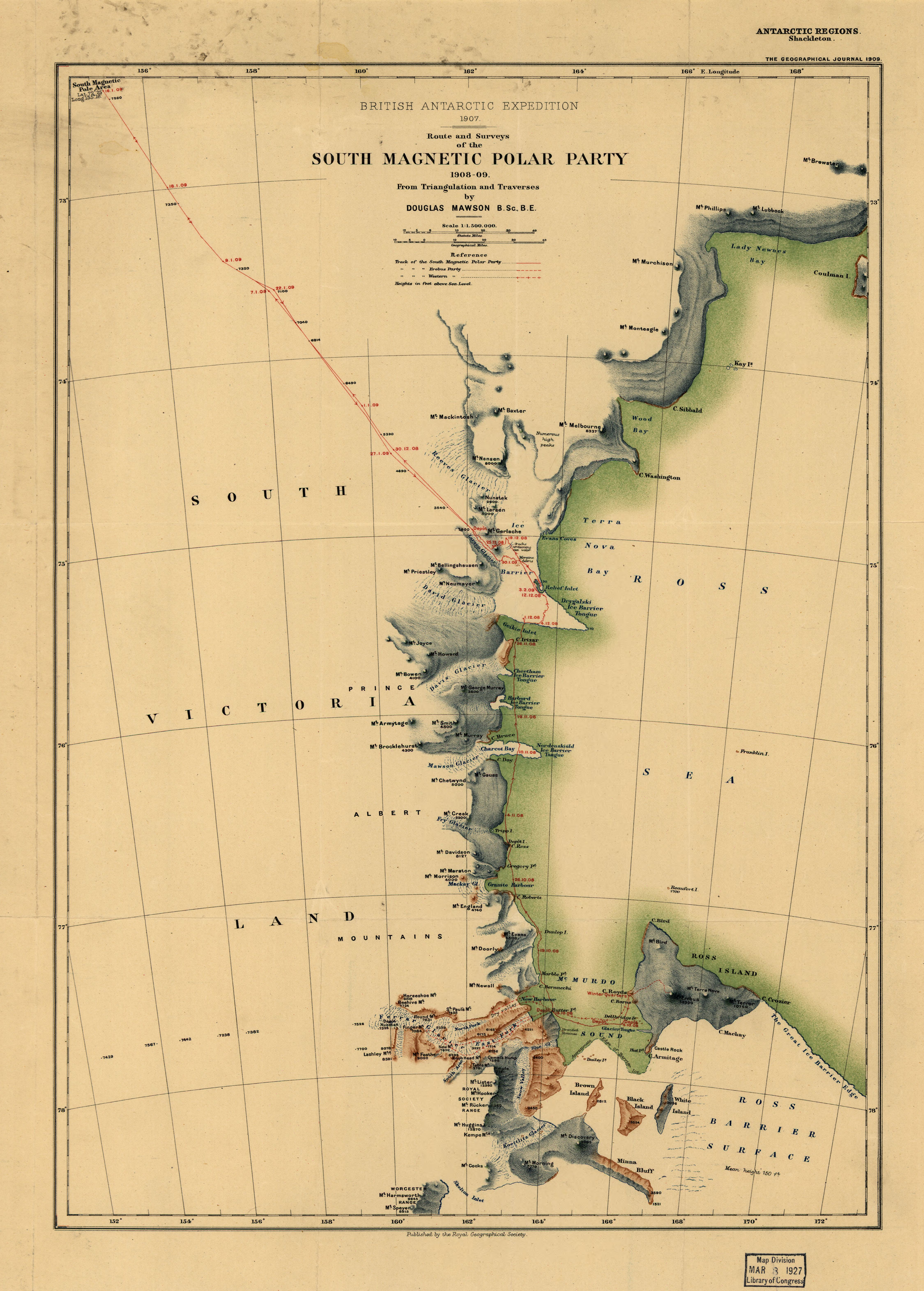 From Geographical Journal, 1909. Available also through the Library of Congress Web site as a raster image.